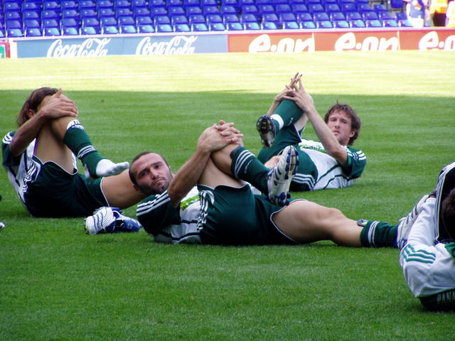 Dimitris Salpingidis - Panathinaikos FC Footballer before the match Ipswich Town FC - Panathinaikos